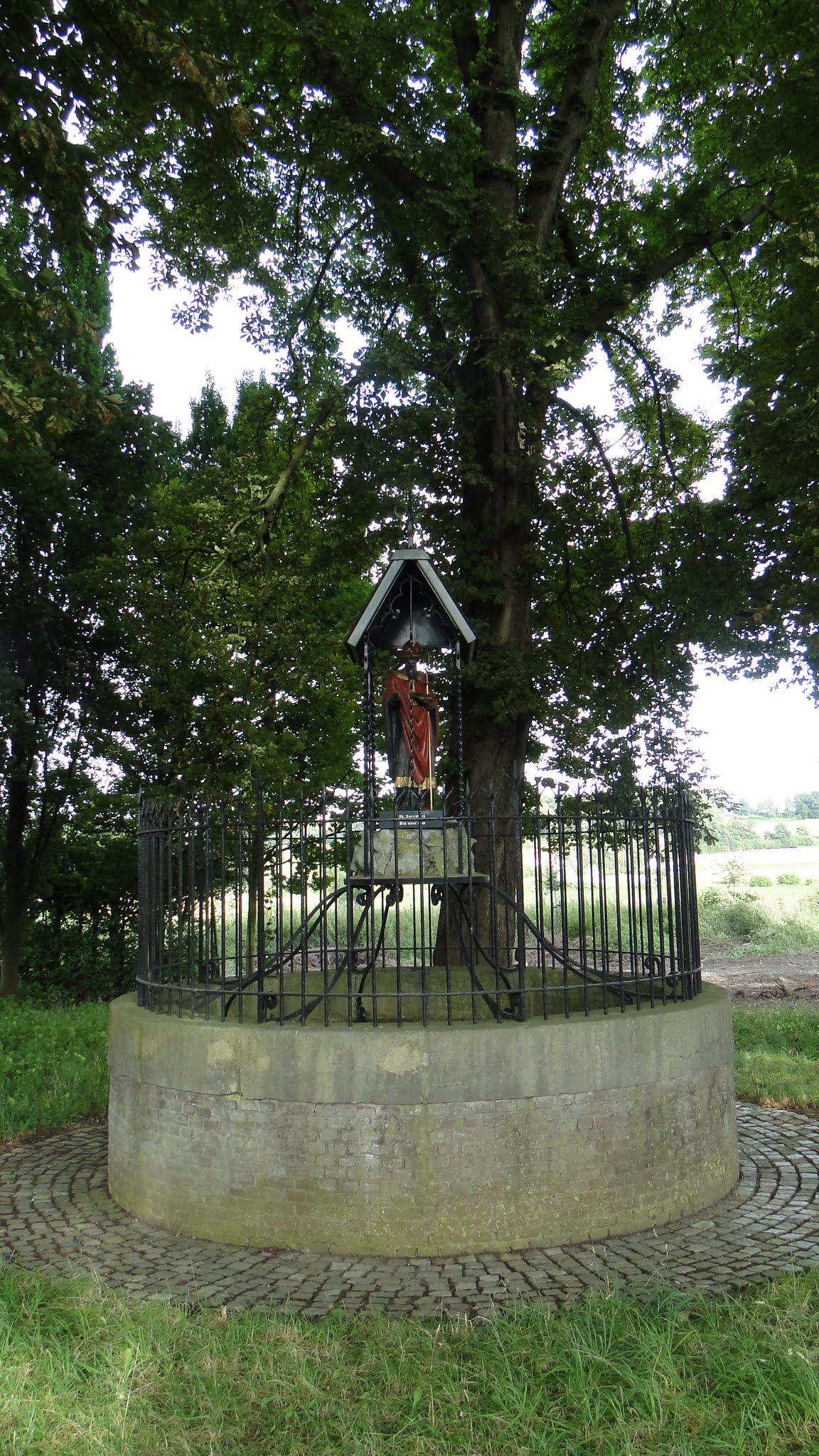 St Servais spring (Maastricht)